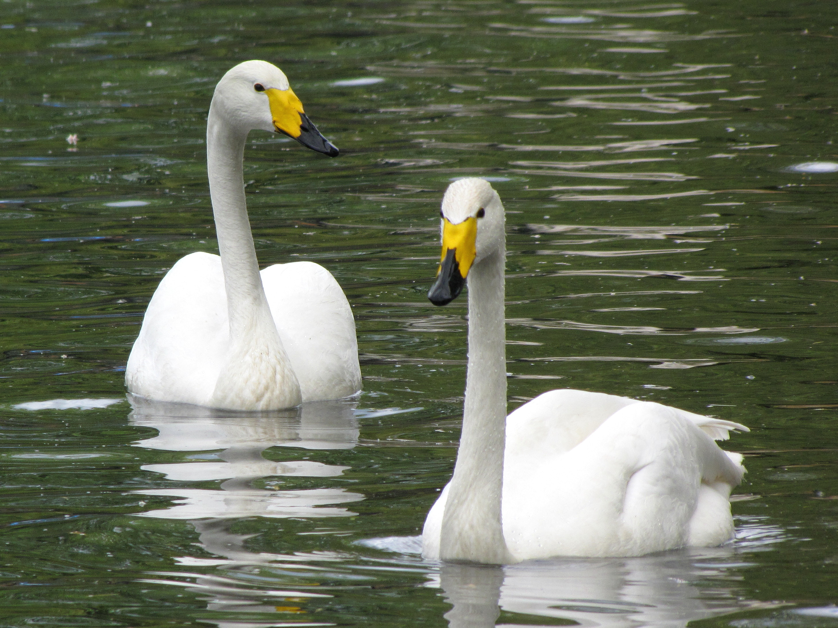 Whooper Swans in Regent's Park, London, England.